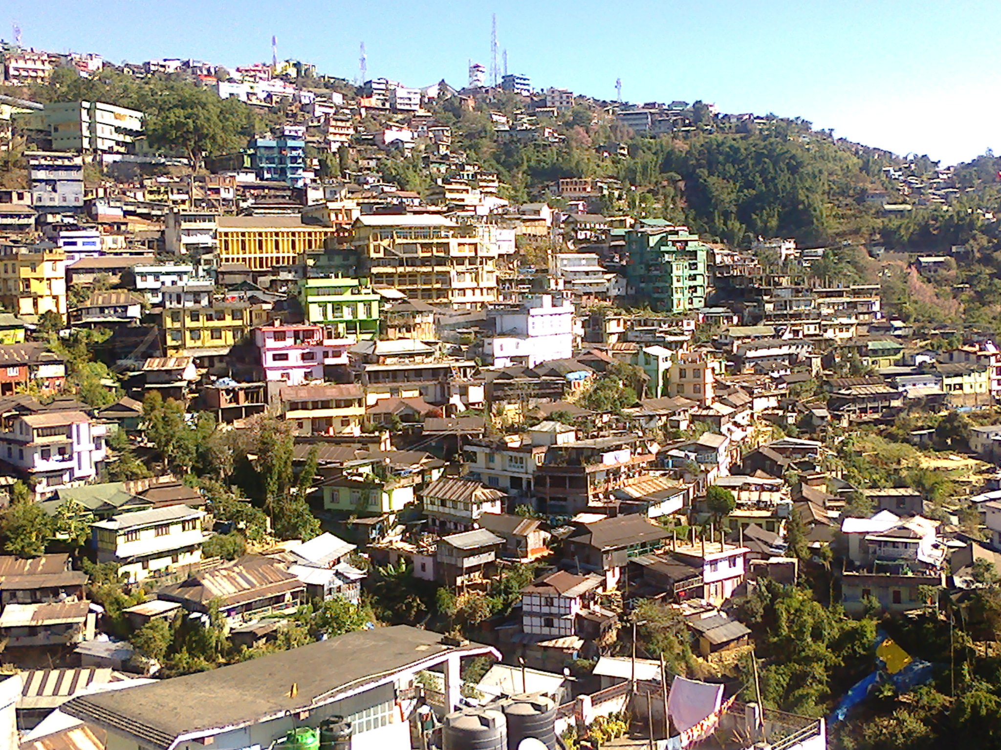 Kohima City